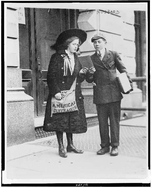 19 year old Fay Hubbard selling suffragette papers